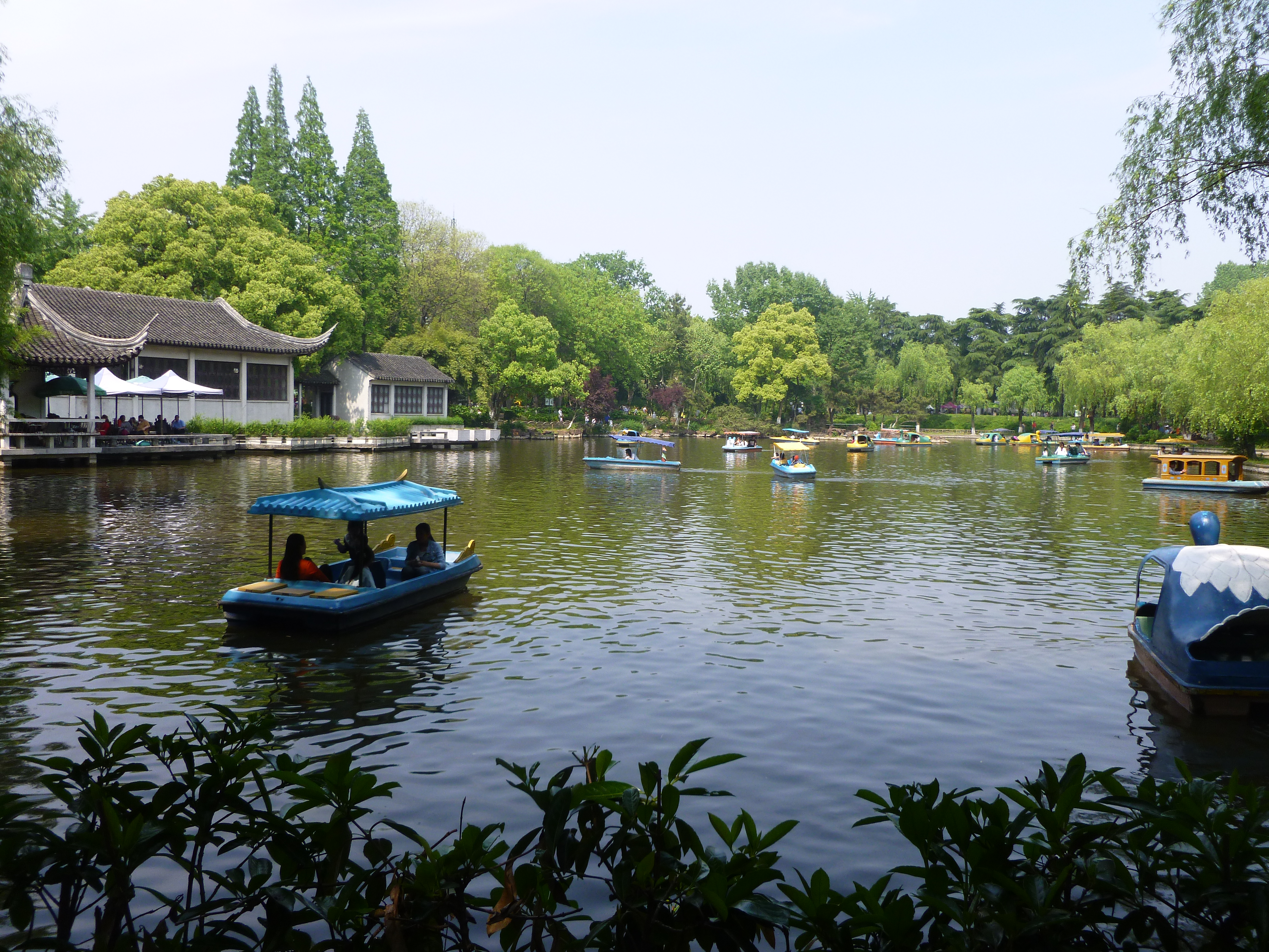 Wide shot of the western pond in Lotus Garden, Huzhou, Zhejiang province, China